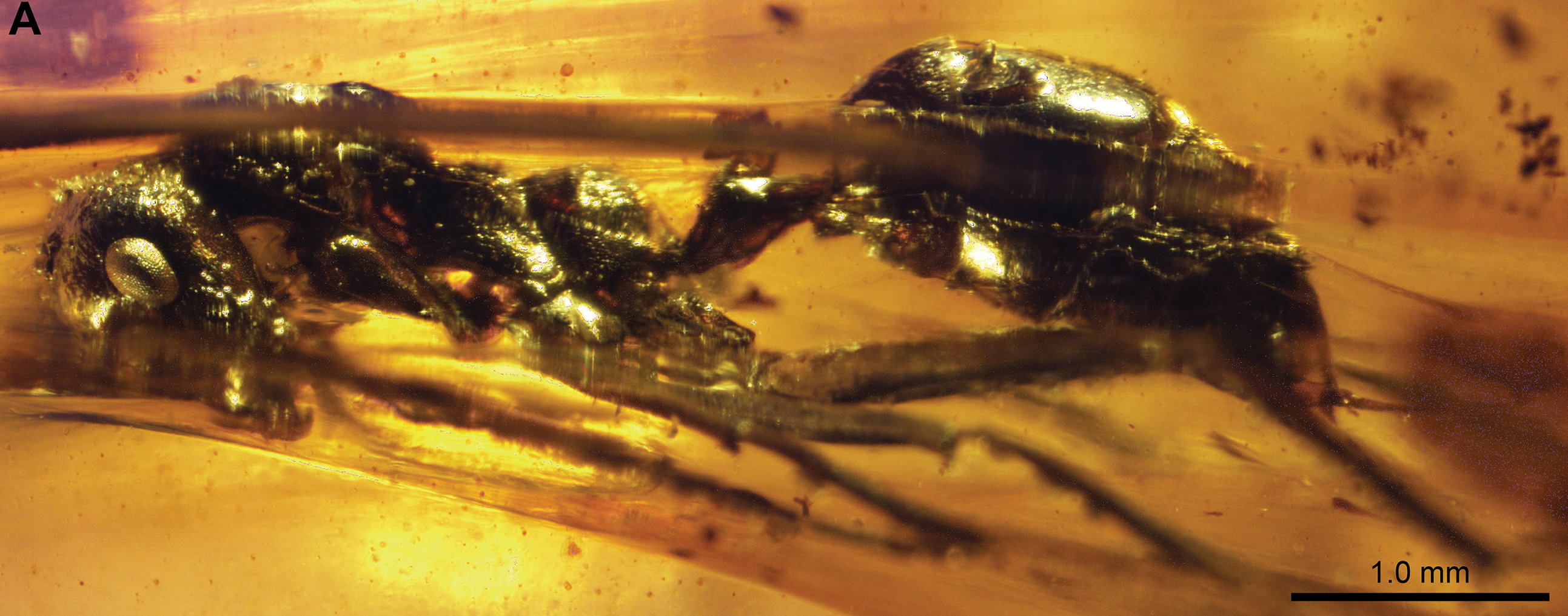 Figure 8. Gerontoformica subcuspis' (syn Sphecomyrmodes subcuspis) holotype JZC Bu304 photomicrographs. A. Lateral view of entire body, partially obscured by fissure in amber.